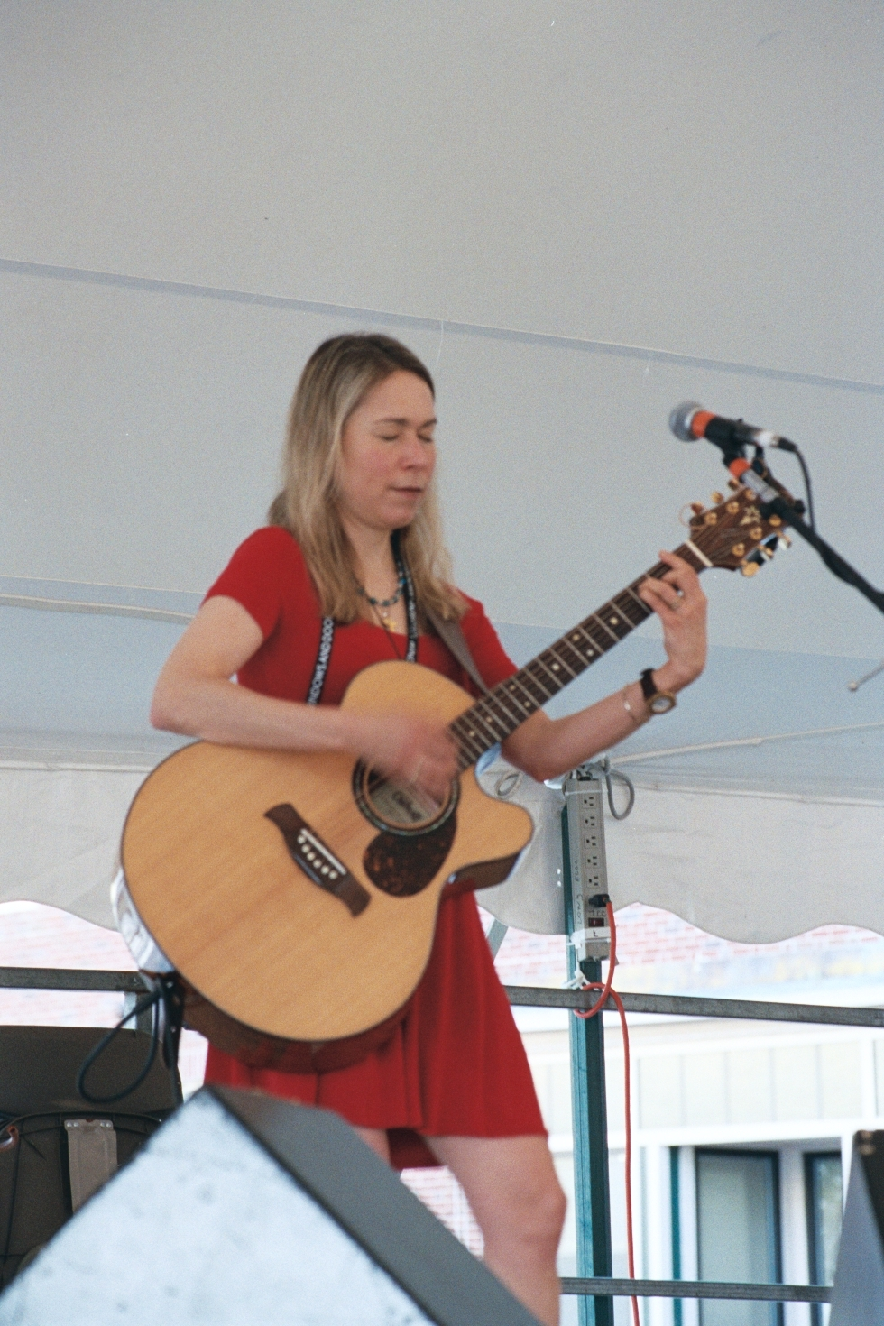 Nerissa Nields - Sunday, July 3, on the Custom House Stage